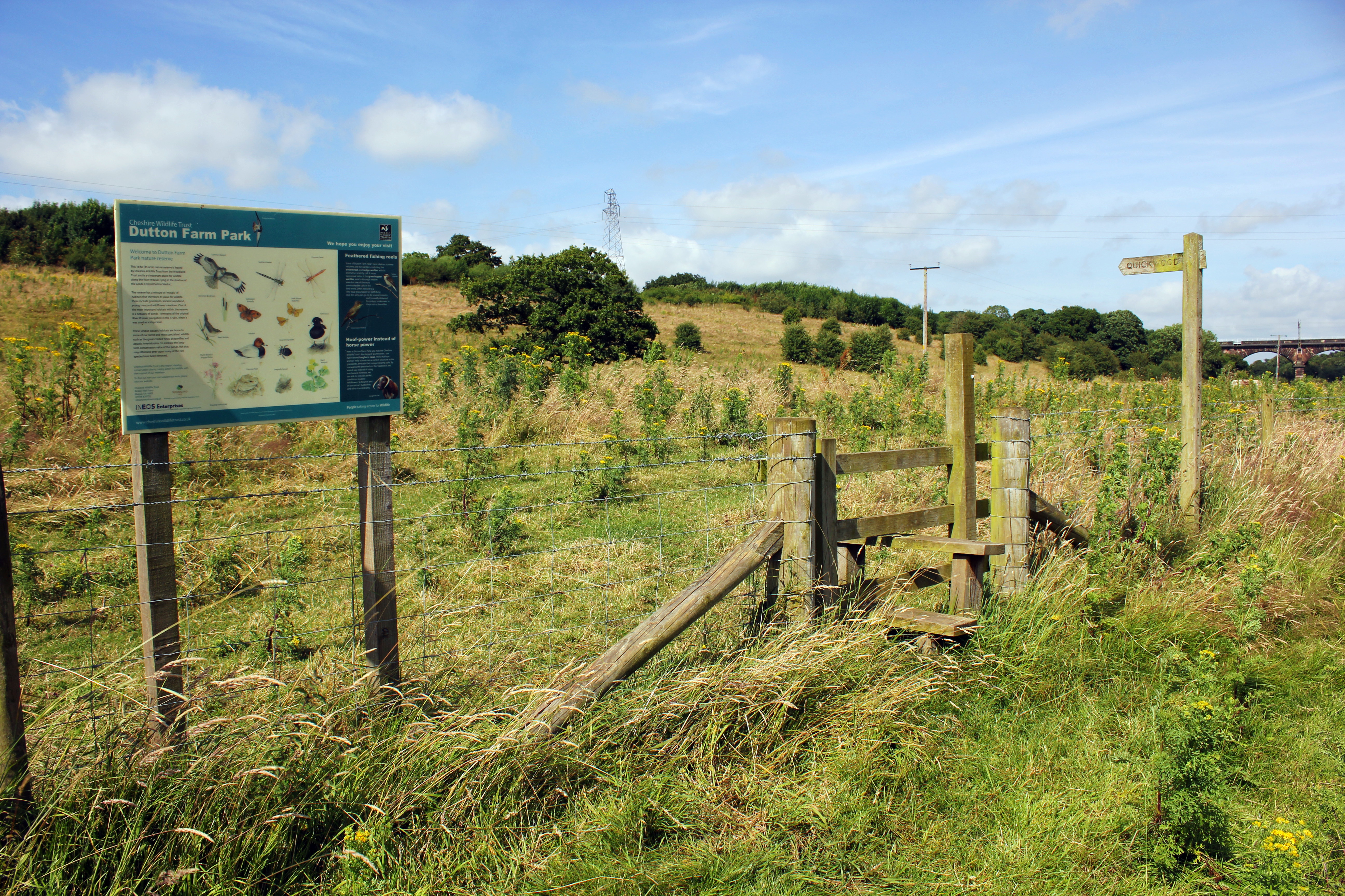 Stile and footpath to Dutton Farm Park